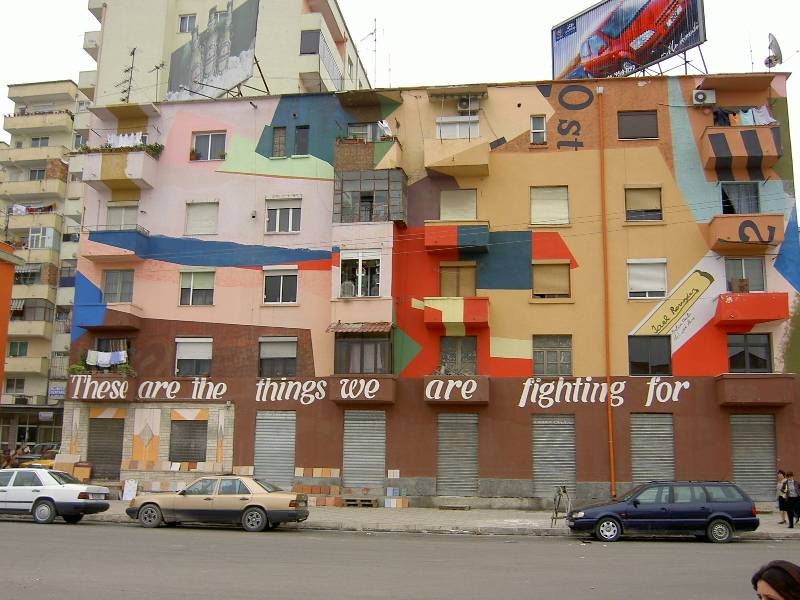 A colorful building in Tirana, Albania Source: Joonas Lyytinen